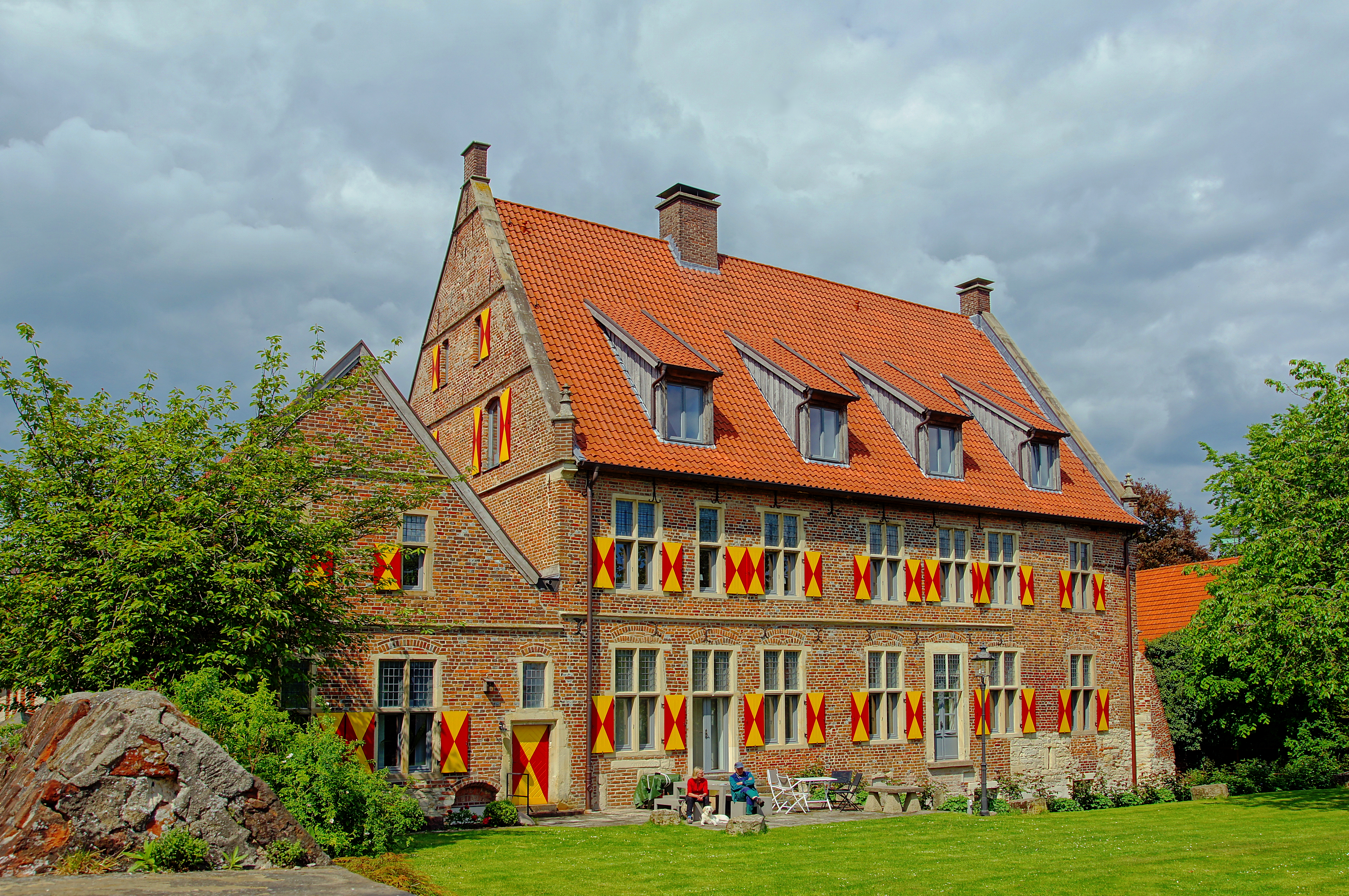 Münsterhof, a historic residence in Horstmar, district of Steinfurt, North Rhine-Westphalia, Germany. This is a photograph of an architectural monument. /23